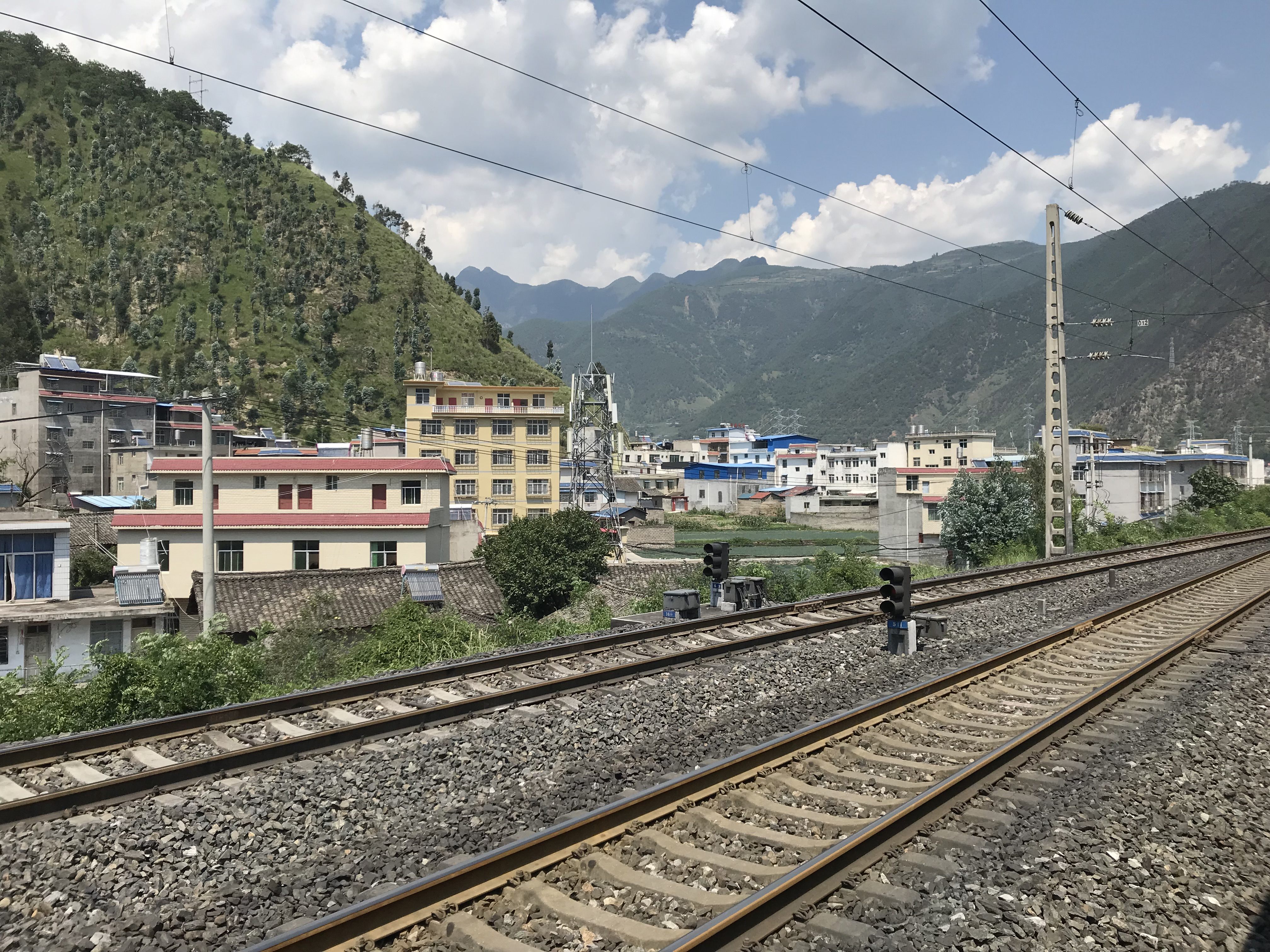 201908 Tracks at Mianshan Station (2)